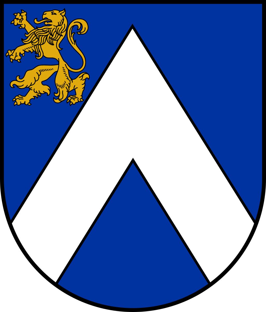 Coat of arms of Bauska Municipality, Latvia